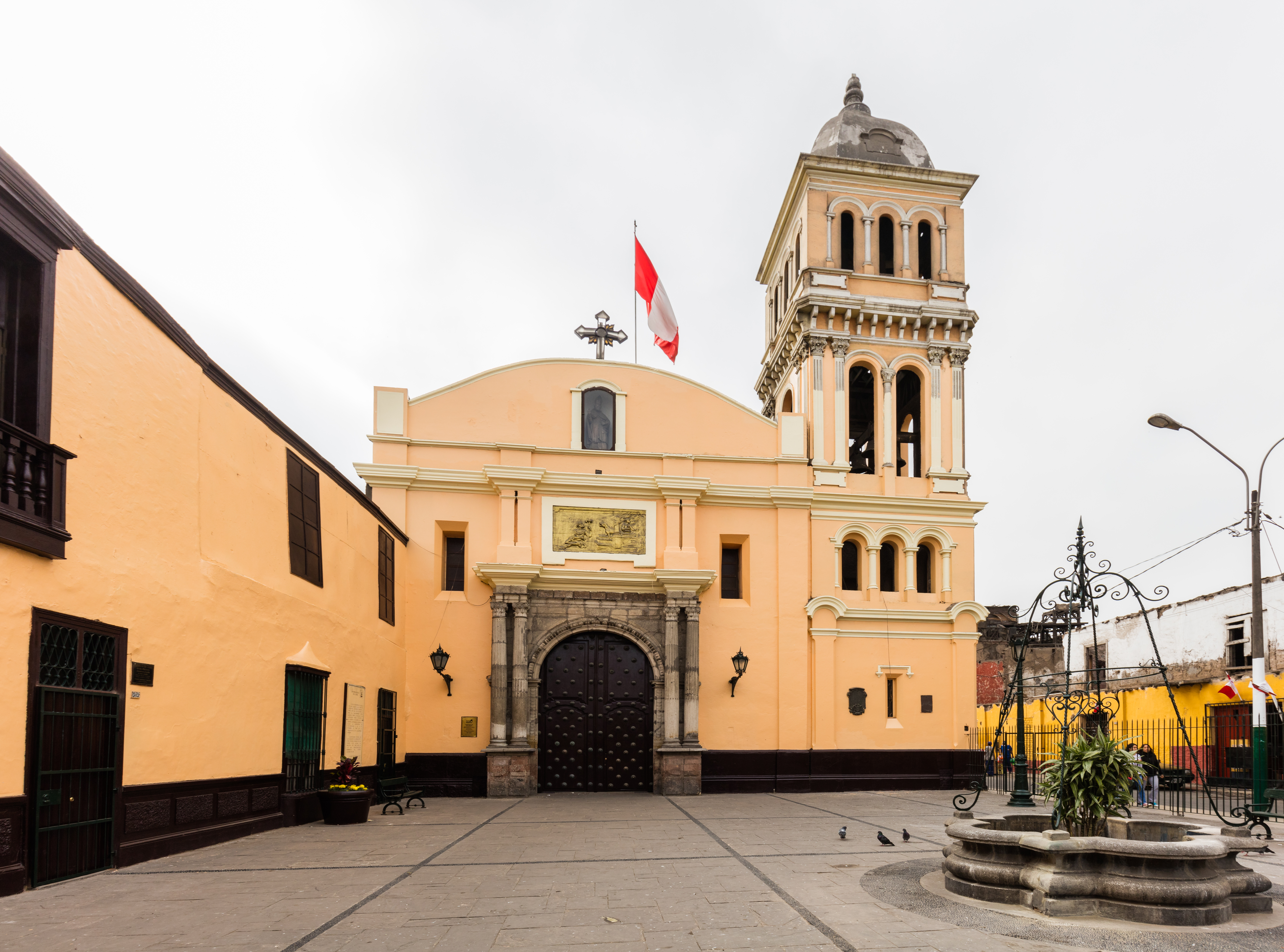 Church of St Lazaro, Lima, Peru